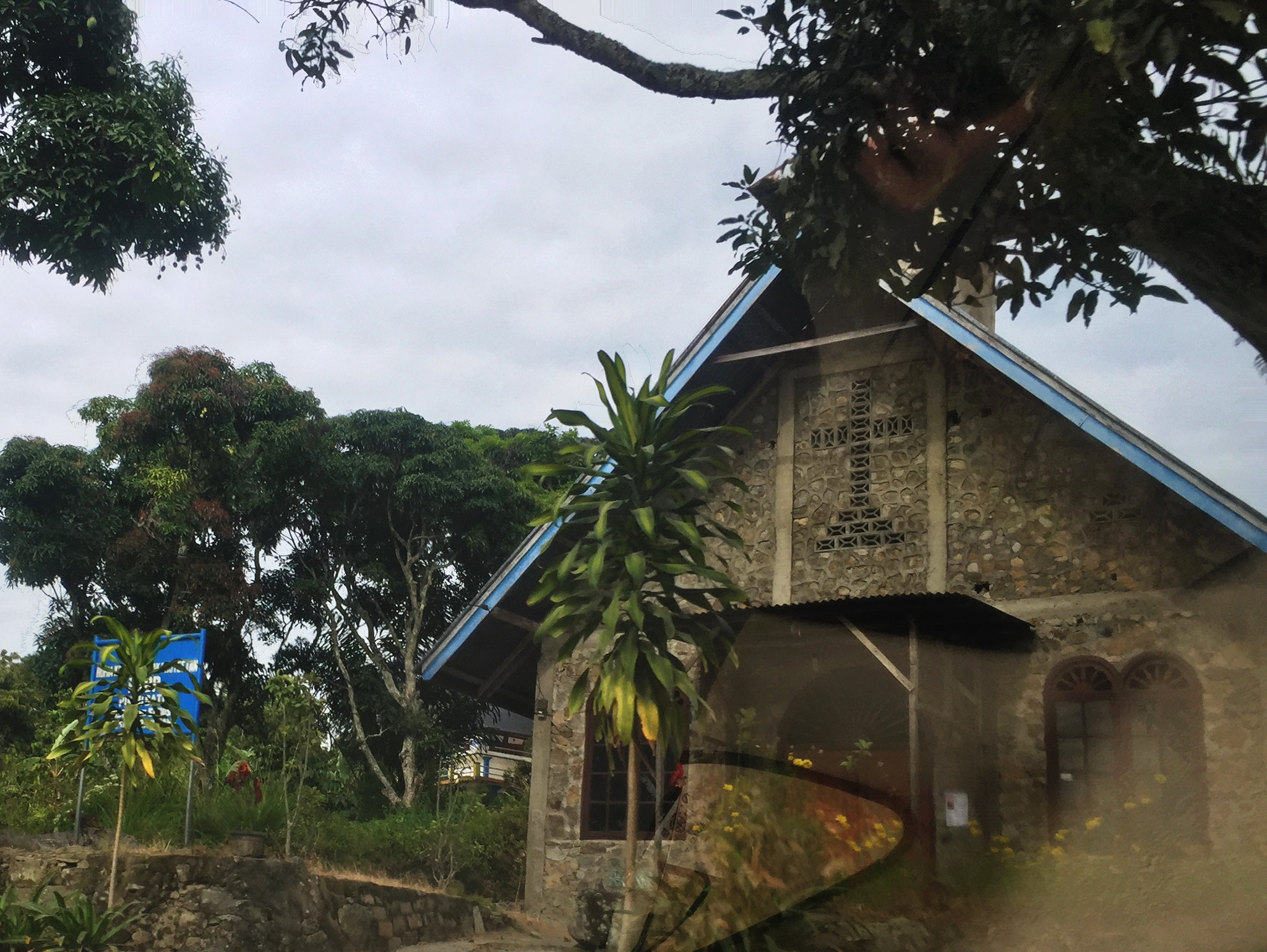 HKBP Pintubatu, Church in Pangururan, Samosir